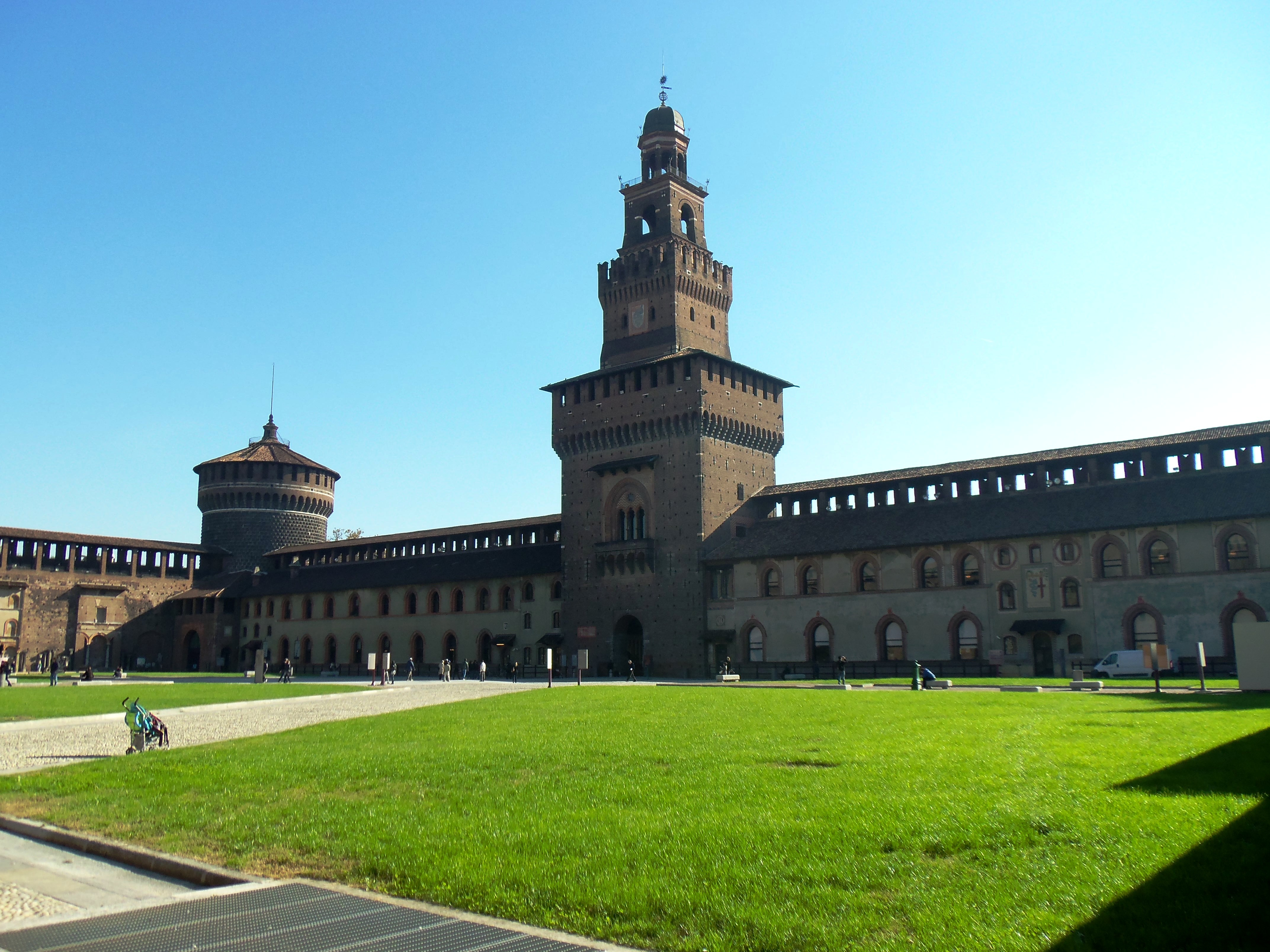 The Torre del Filarete and south wall (internal view)